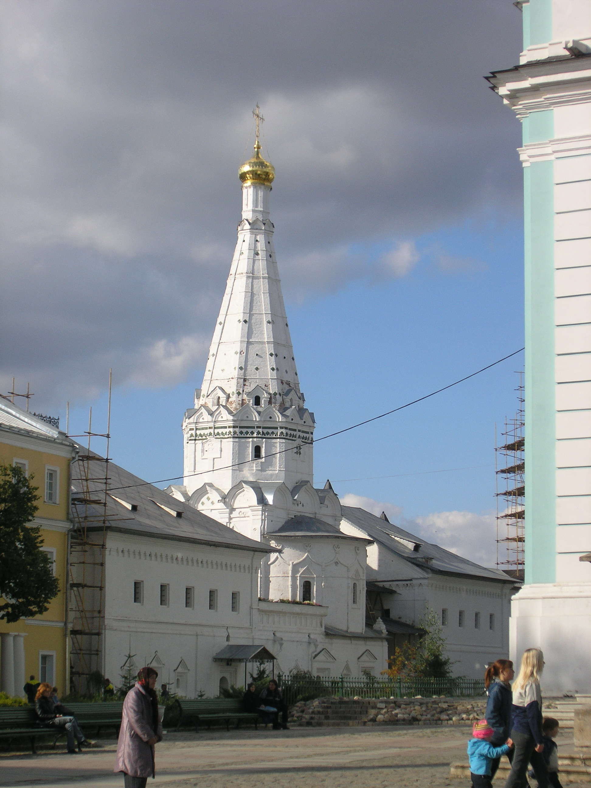 Church of Zosima and Savvaty and Hospital wards. Troitse-Sergiyeva Lavra. Sergiev Posad, Russia.